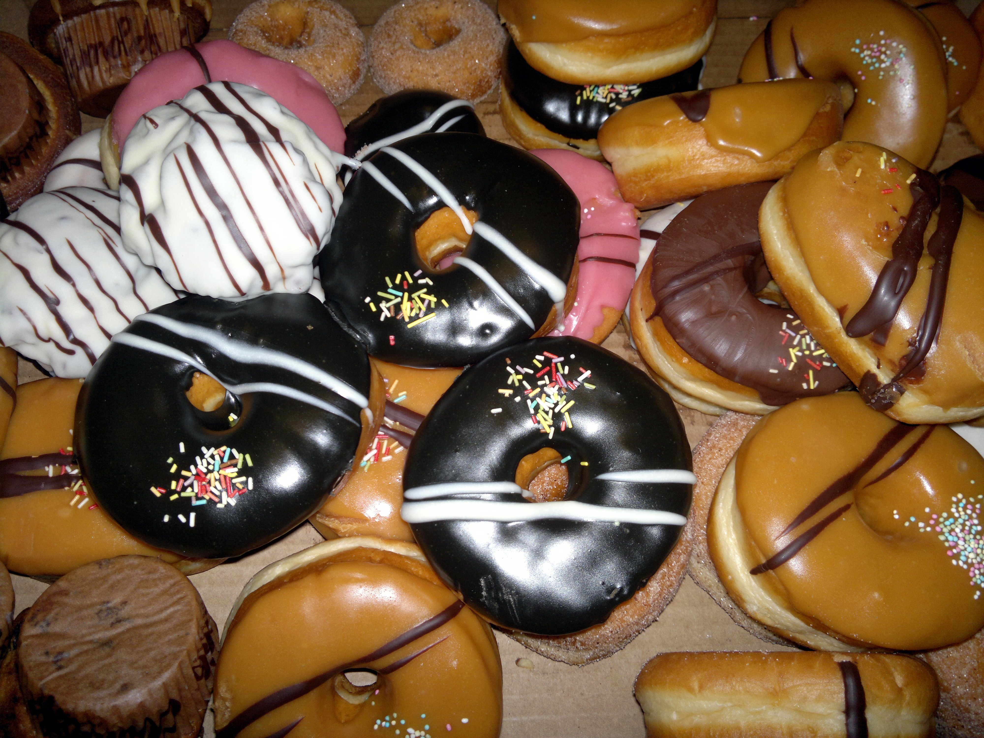 Arnold's-products.